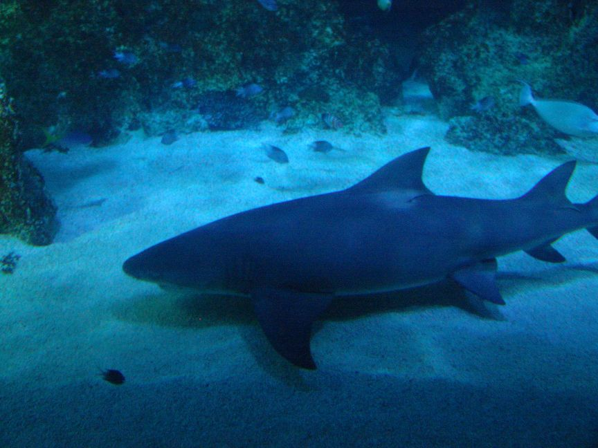 Sicklefin lemon shark (Negaprion acutidens) at the Sydney Aquarium.